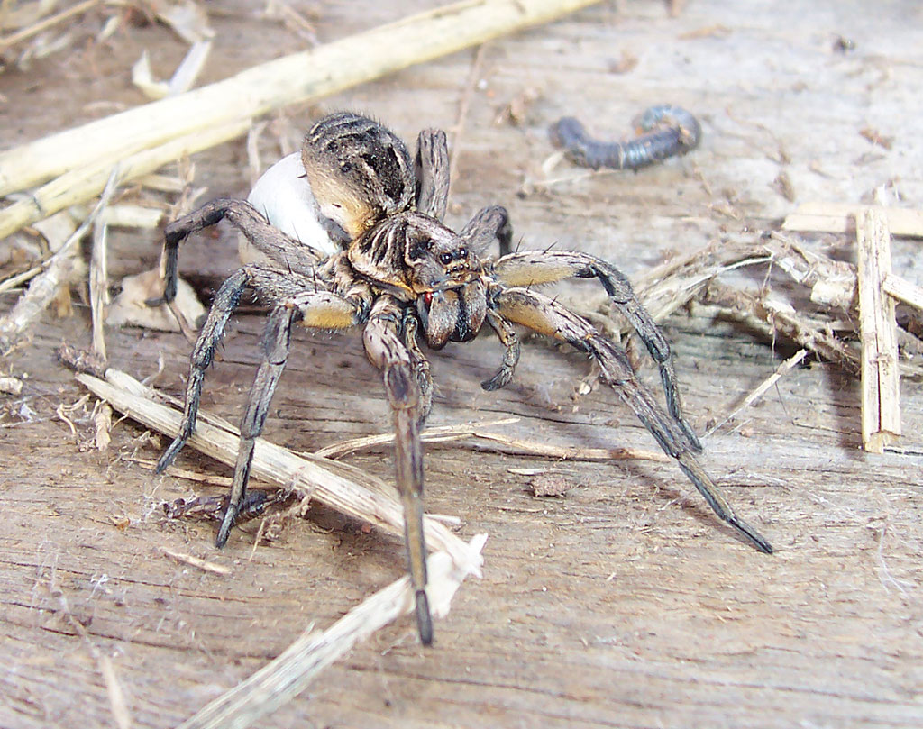 Wolf Spider with her egg sac Commons:Category:Animals of Australia Commons:Category:Lycosa godeffroyi